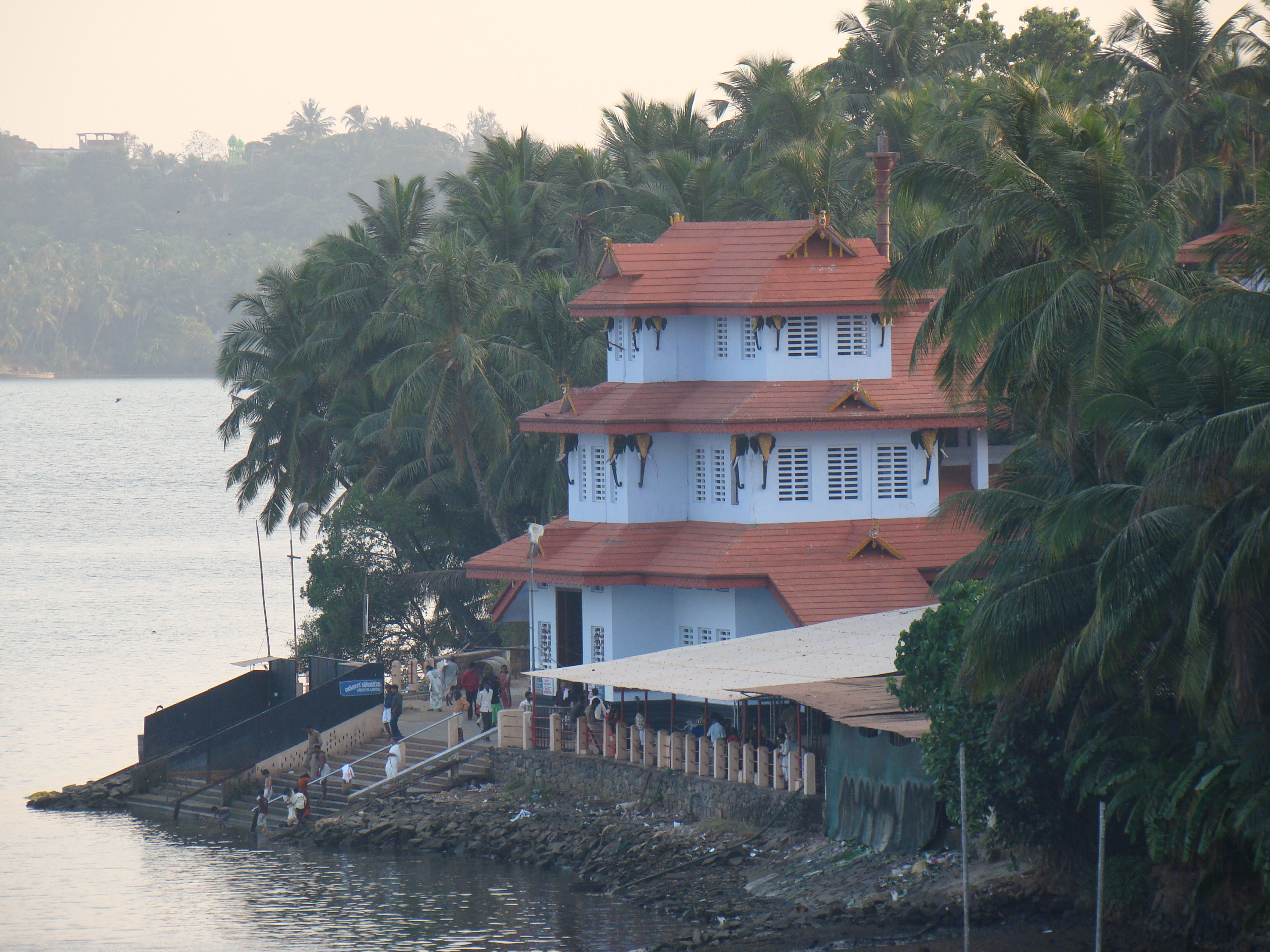 Parassinikkadavu Muthappan Temple at Kannur district